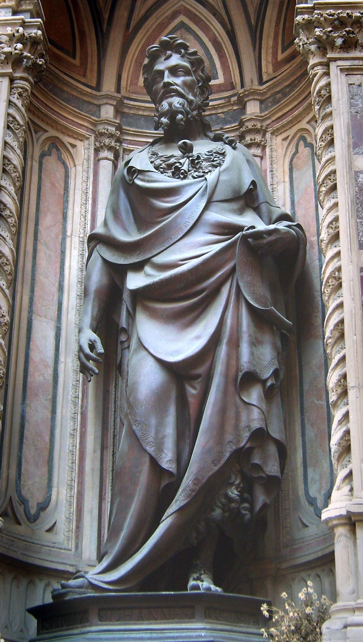 Lorenzo Ghiberti - John the Baptist